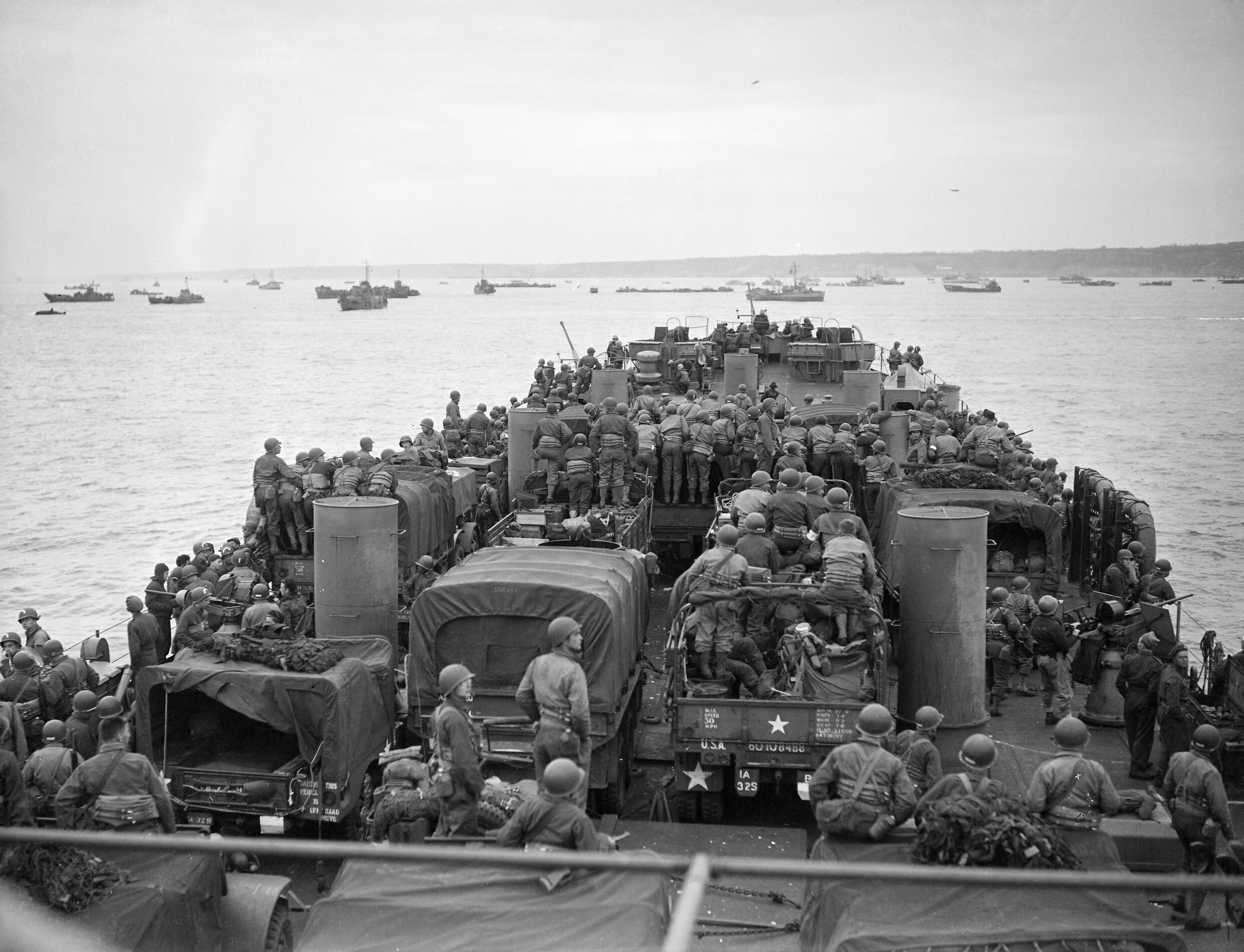 The Royal Navy during the Second World War- Operation Overlord (the Normandy Landings), June 1944 Allied troops continue to head towards the Normandy beachhead. Here American troops crowd the deck as the landing ship tank LST 25 goes in to unload its cargo of men and trucks between St Laurent and Vierville. Other invasion vessels can be seen in the distance.